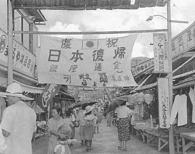 Returned Amami Islands to Japan